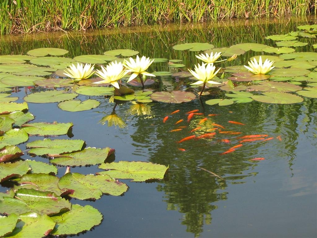 Water lillies and goldfish in the Italian Garden at Biltmore